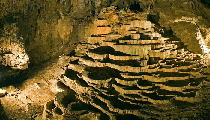 Terraces of precipitated calcium carbonate inside Škocjan Caves, Slovenia (taken with permission of park authorities)